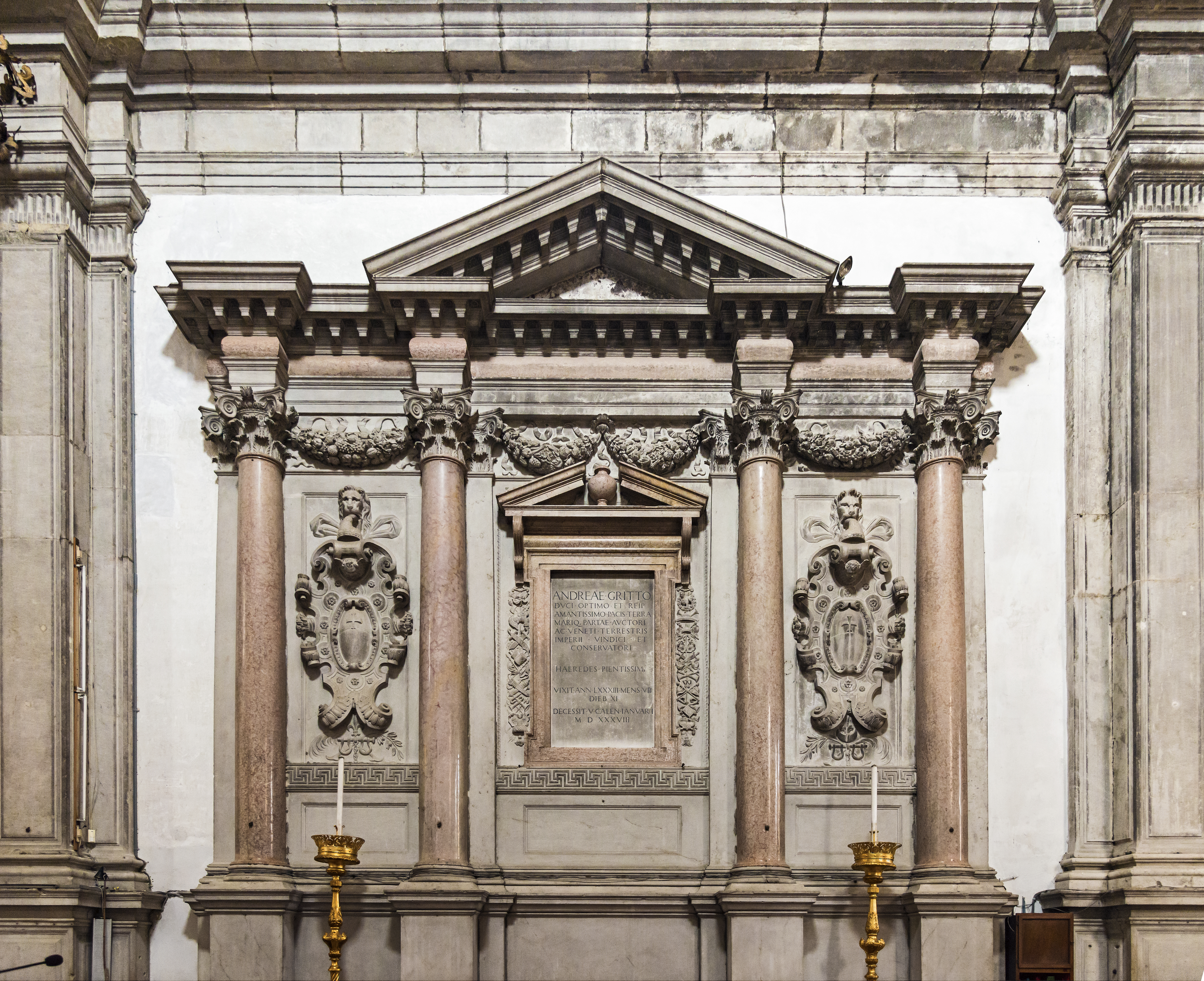 San Francesco della Vigna in Venice - Choir. Funerary monument and the epitaph of the Doge Andrea Gritti (death in 1538), work of the Palladian school of the mid-sixteenth century.